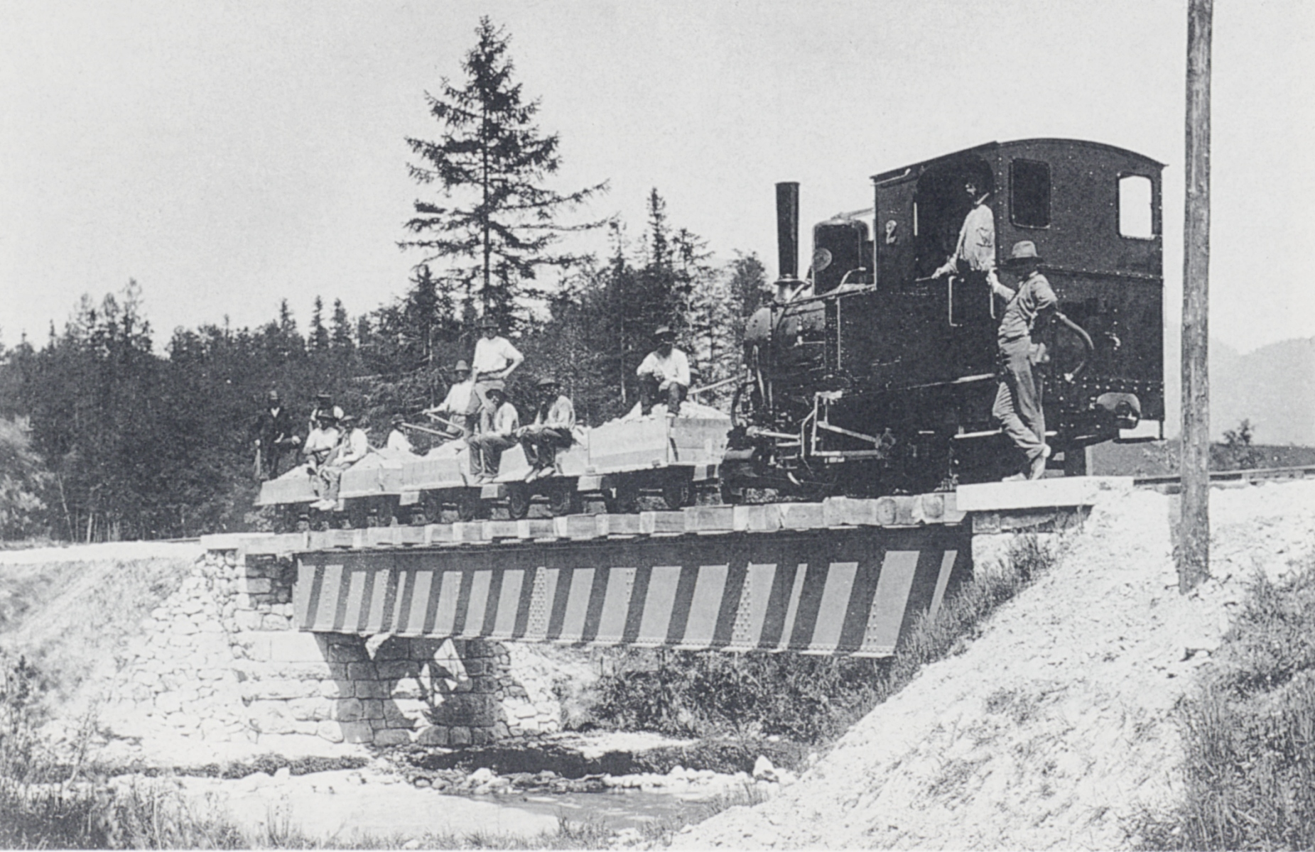 Salzkammergut-Lokalbahn No.2 with works train on the Weißenbach bridge during construction